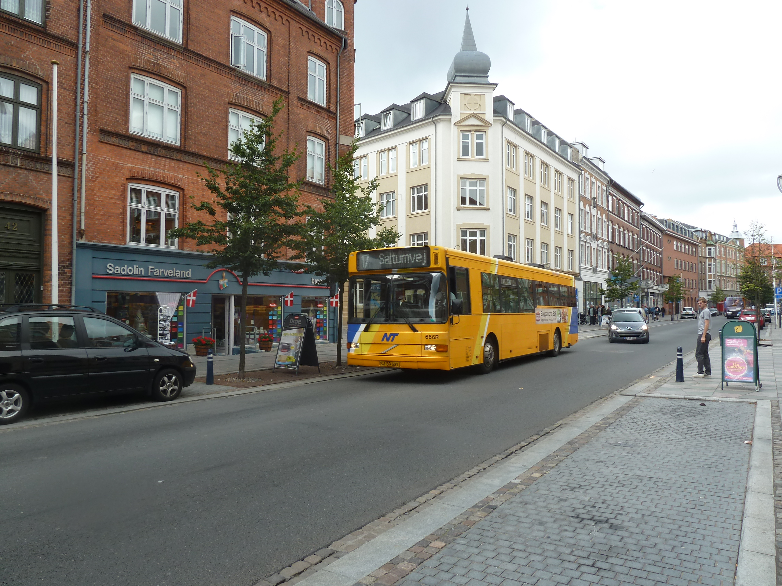 Bus line 17 on Boulevarden in Aalborg in Denmark.